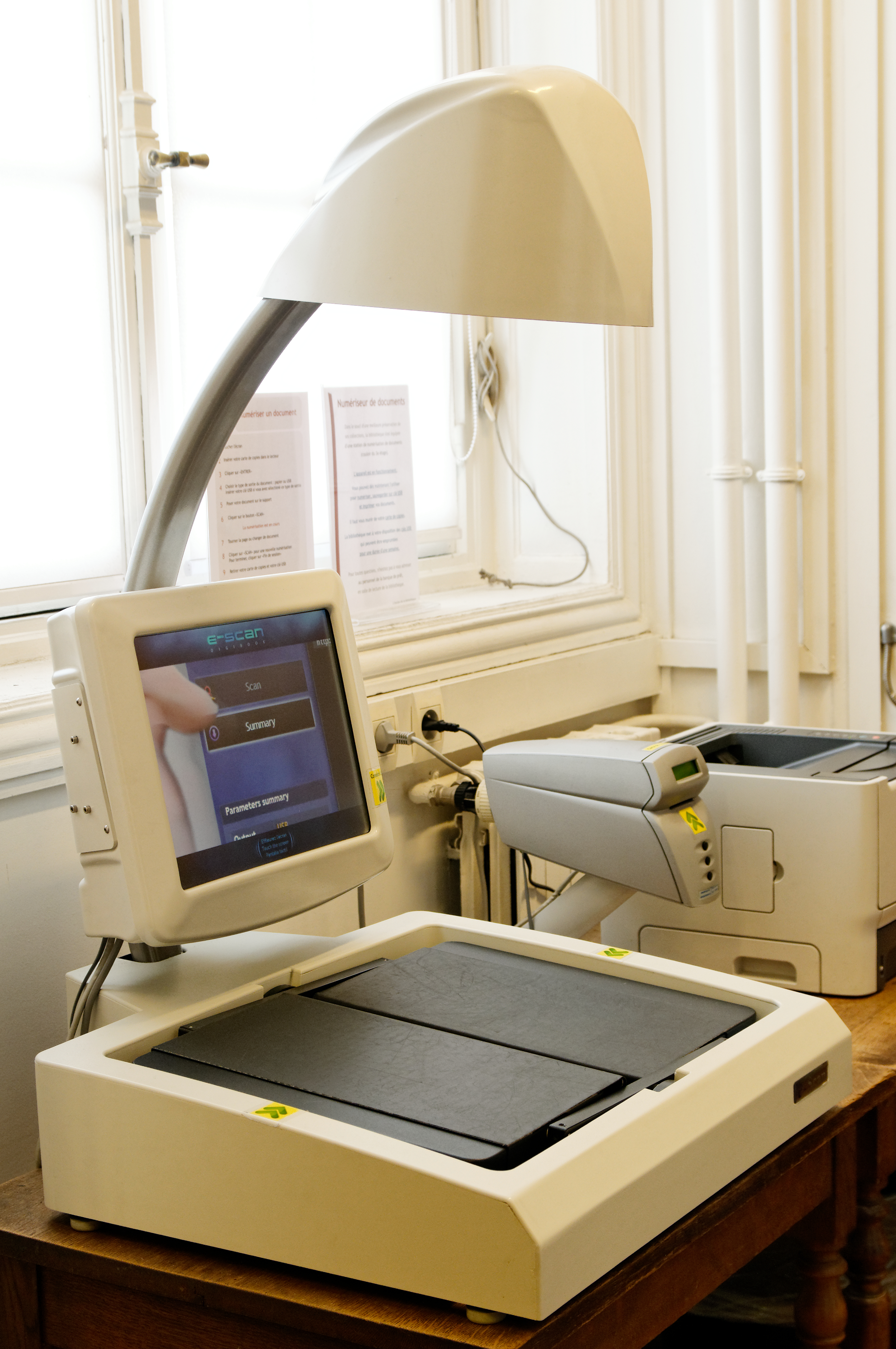 eScan Digibook scanner, library of the École nationale des Chartes.